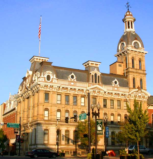 Wayne County courthouse in Wooster (taken Sept. 27. 2004)